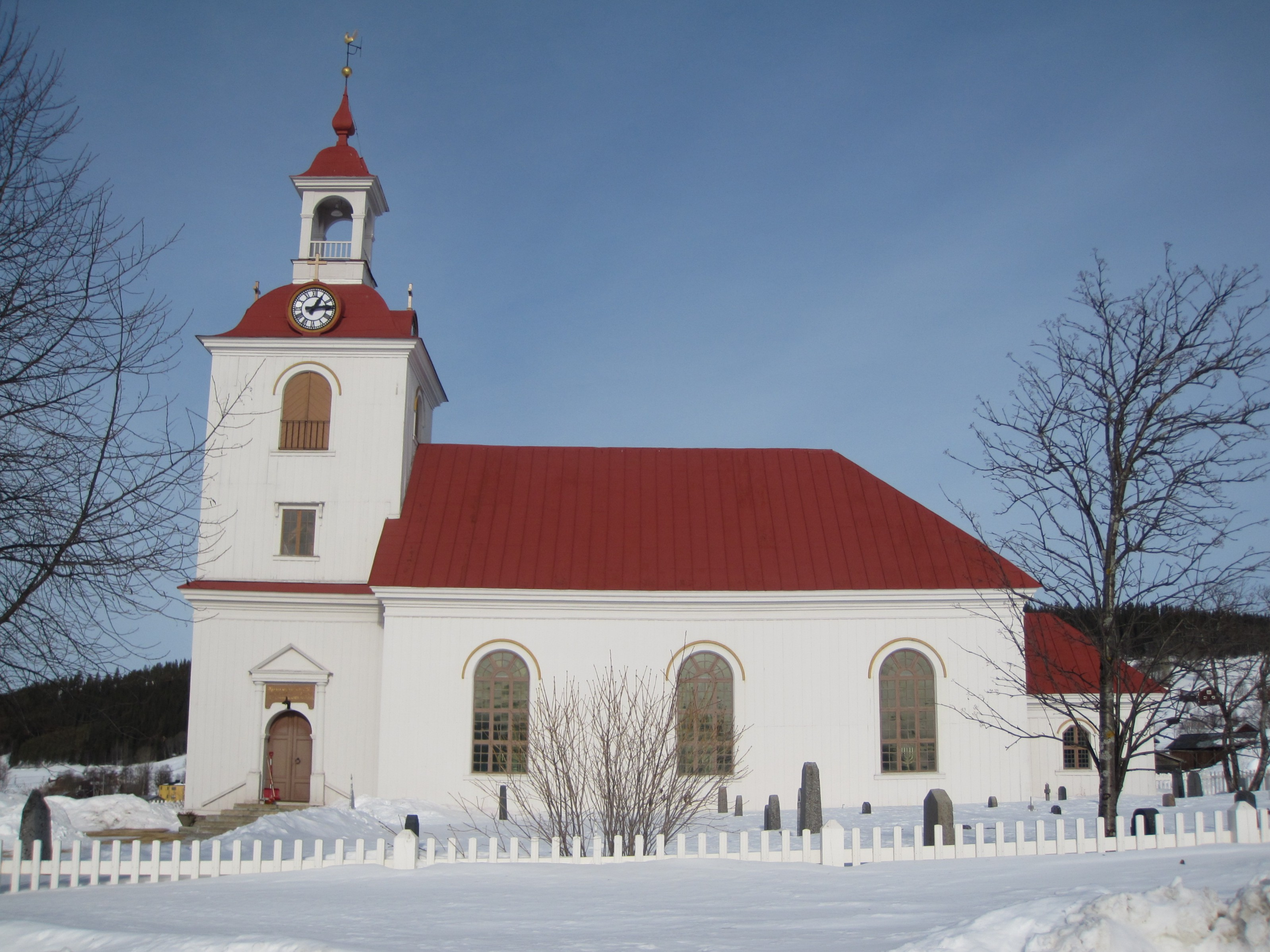 Klövsjö church